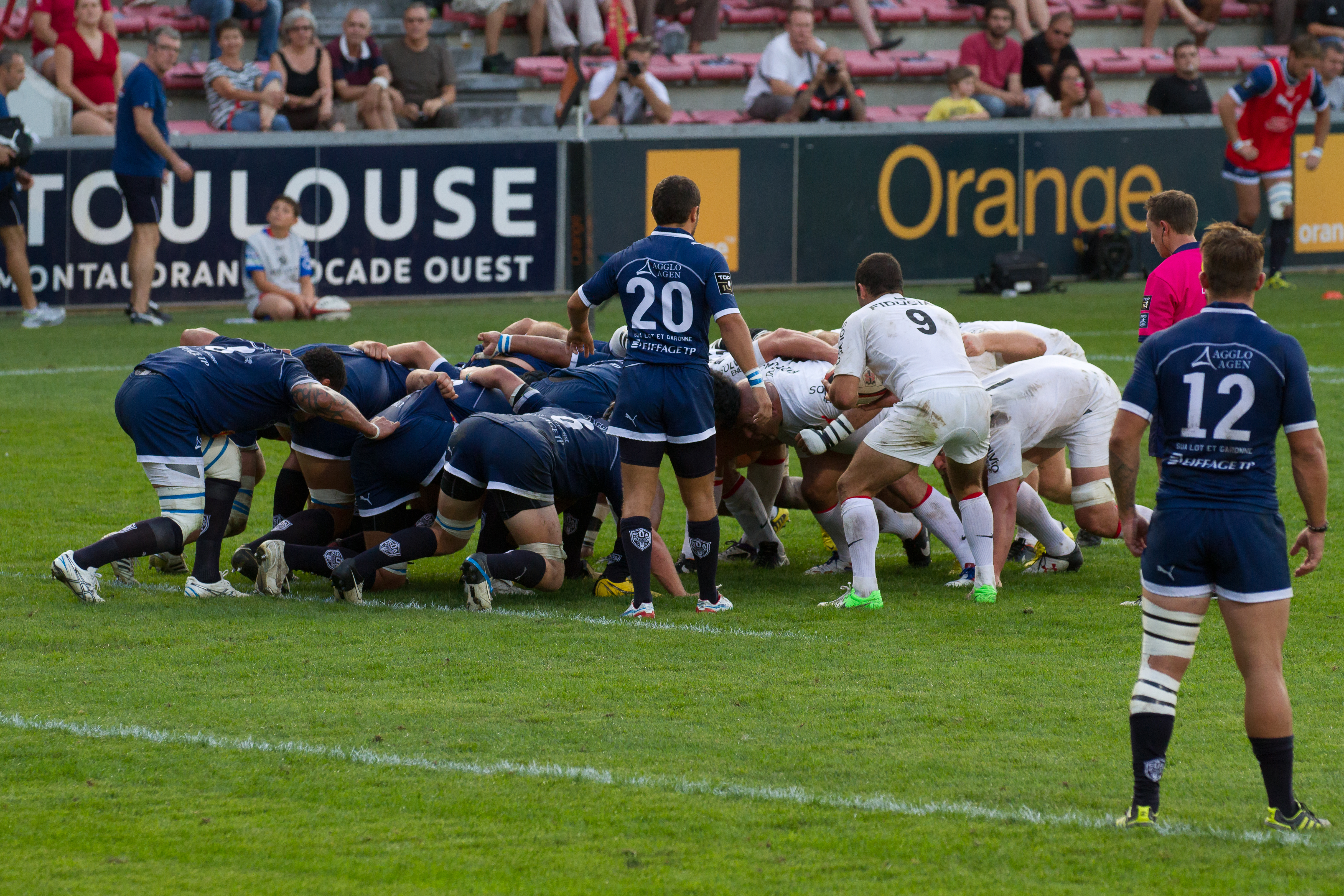 Top 14 — 8 September 2012, Stade Ernest-Wallon. Match between: Stade toulousain — SU Agen